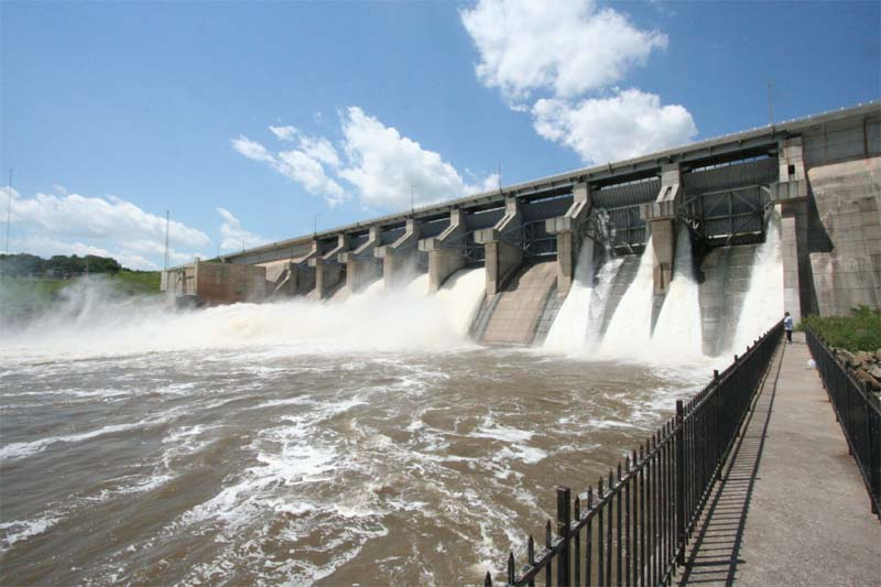 This photo of the dam below Kaw Lake was taken by ReservoirHill and is being released into the public domain.